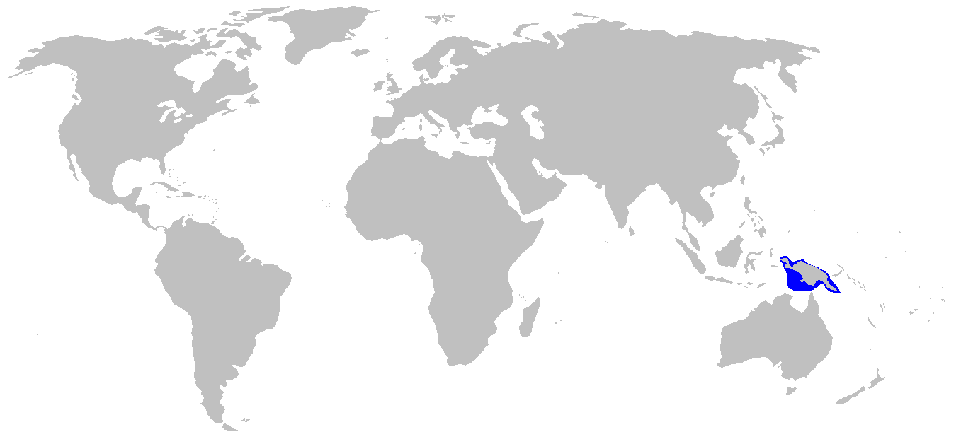 Distribution map for Hemiscyllium freycineti